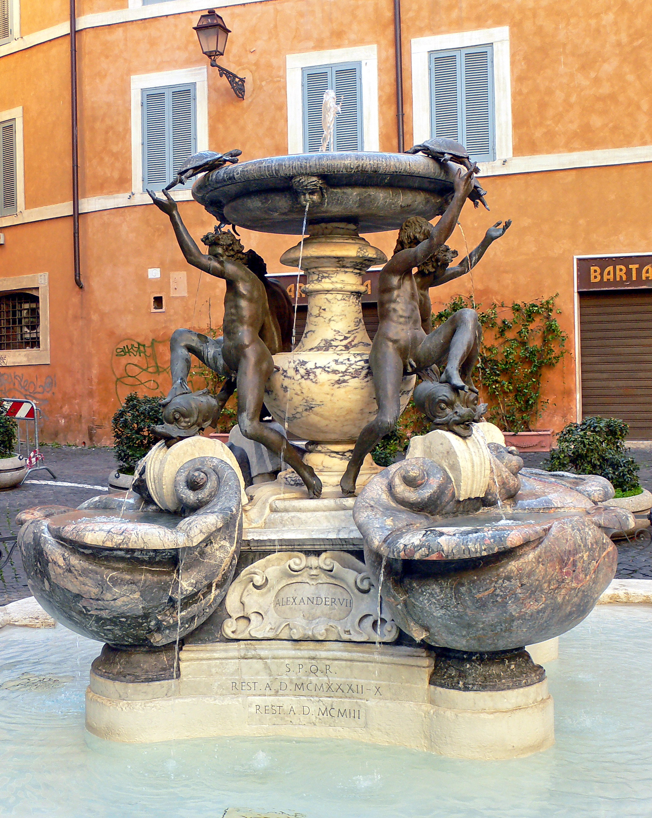 Rome Fontana delle Tartarughe (Turtle fountain); Giacomo della Porta